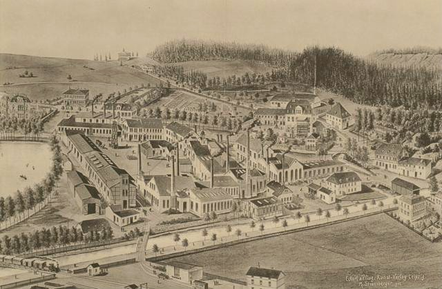 Schönheiderhammer as of 1892